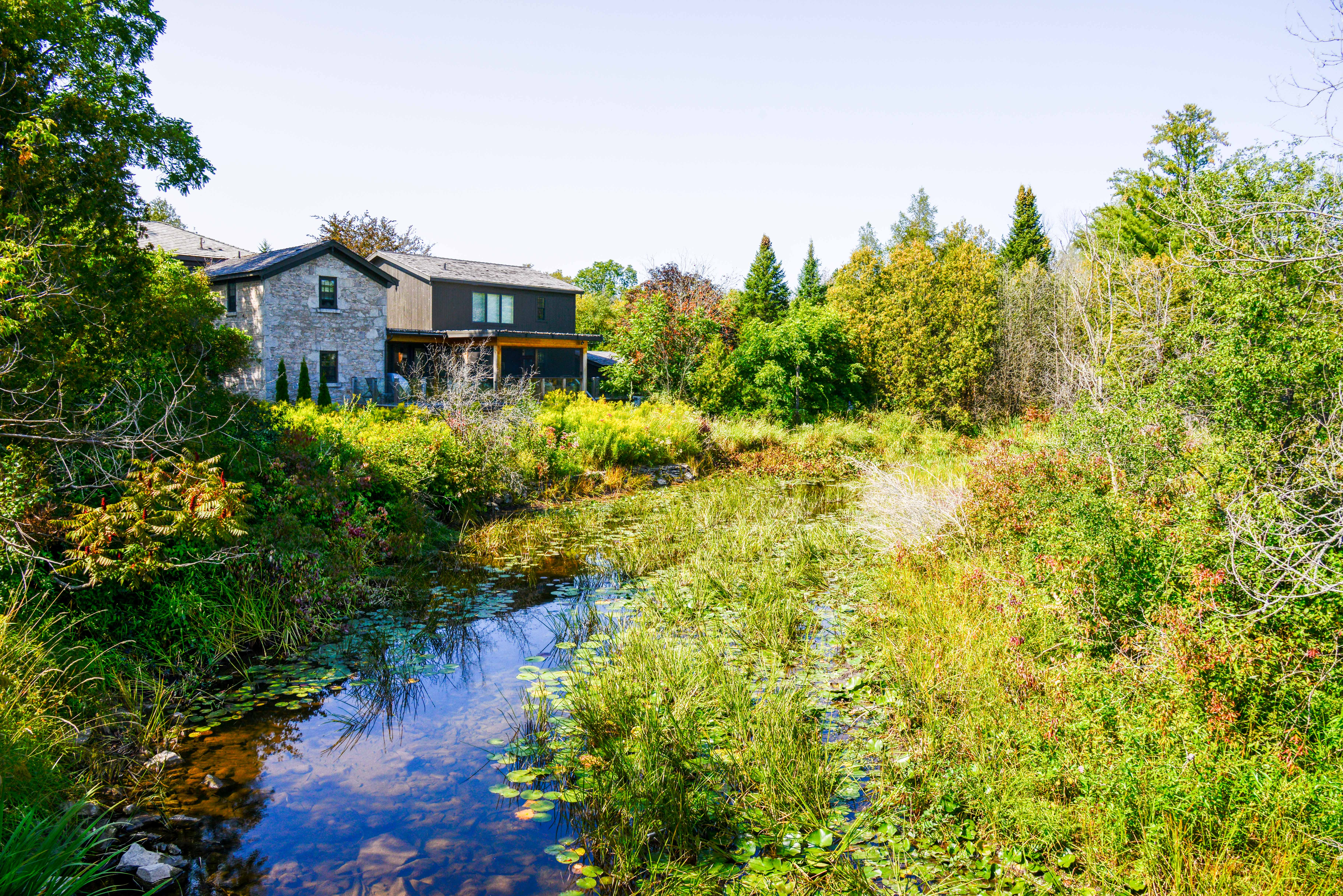 Eramosa River in Eden Mills, Ontario